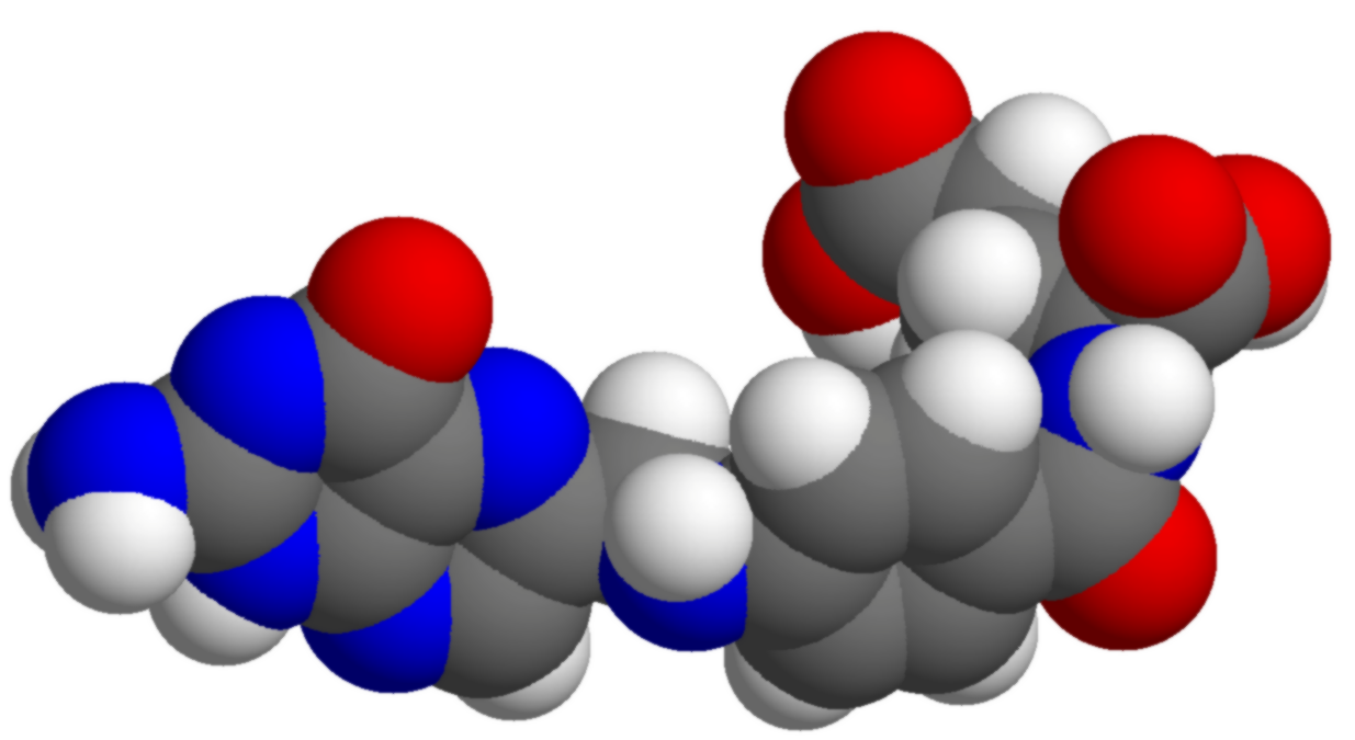 space filling model of folic acid from drugbank.ca data